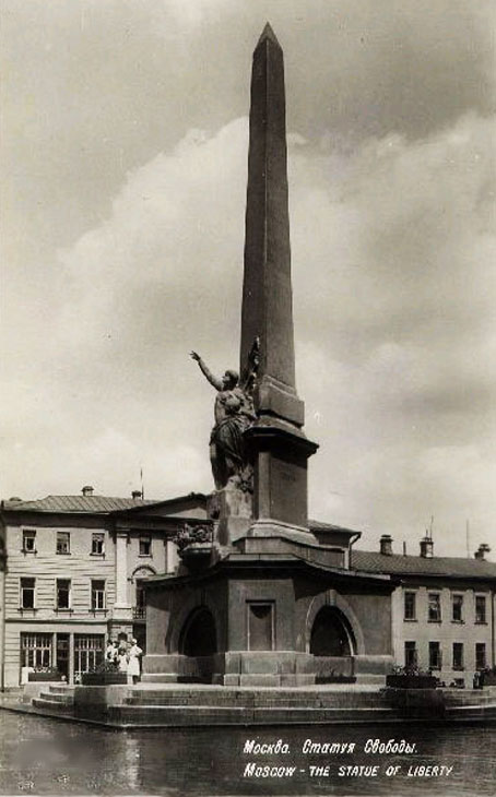 N. Andreyev, D. Osipov. Monument to the First Soviet Constitution in Soviet (present-day Tverskaya) Square in Moscow. Brick, concrete, height =26 m. 1918-19. (Destroyed in 1941).